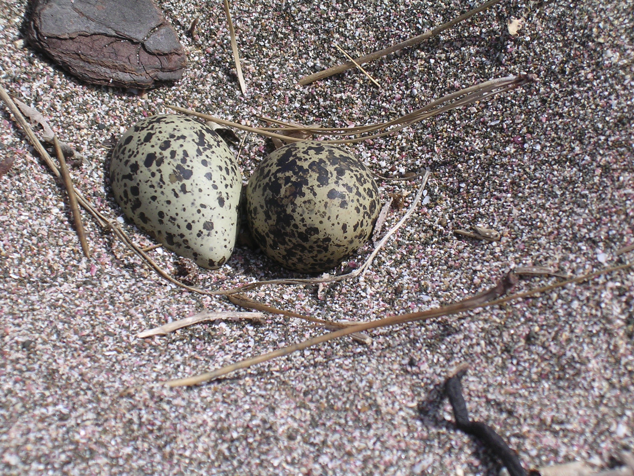 User DChandler took this photo. It is a nest with two New Zealand Dotterel eggs. The nest was on Wiwiki Beach (also known as Mataka Beach), Purerua Peninsula, Northland, New Zealand.